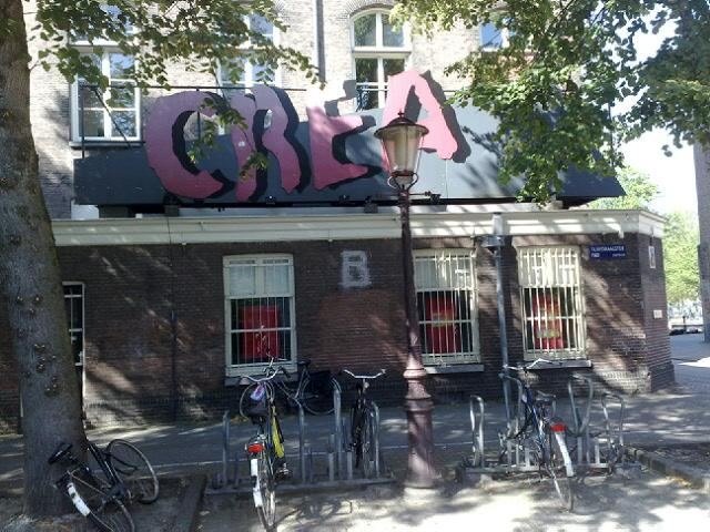 Picture of building of Crea at the Binnengasthuis